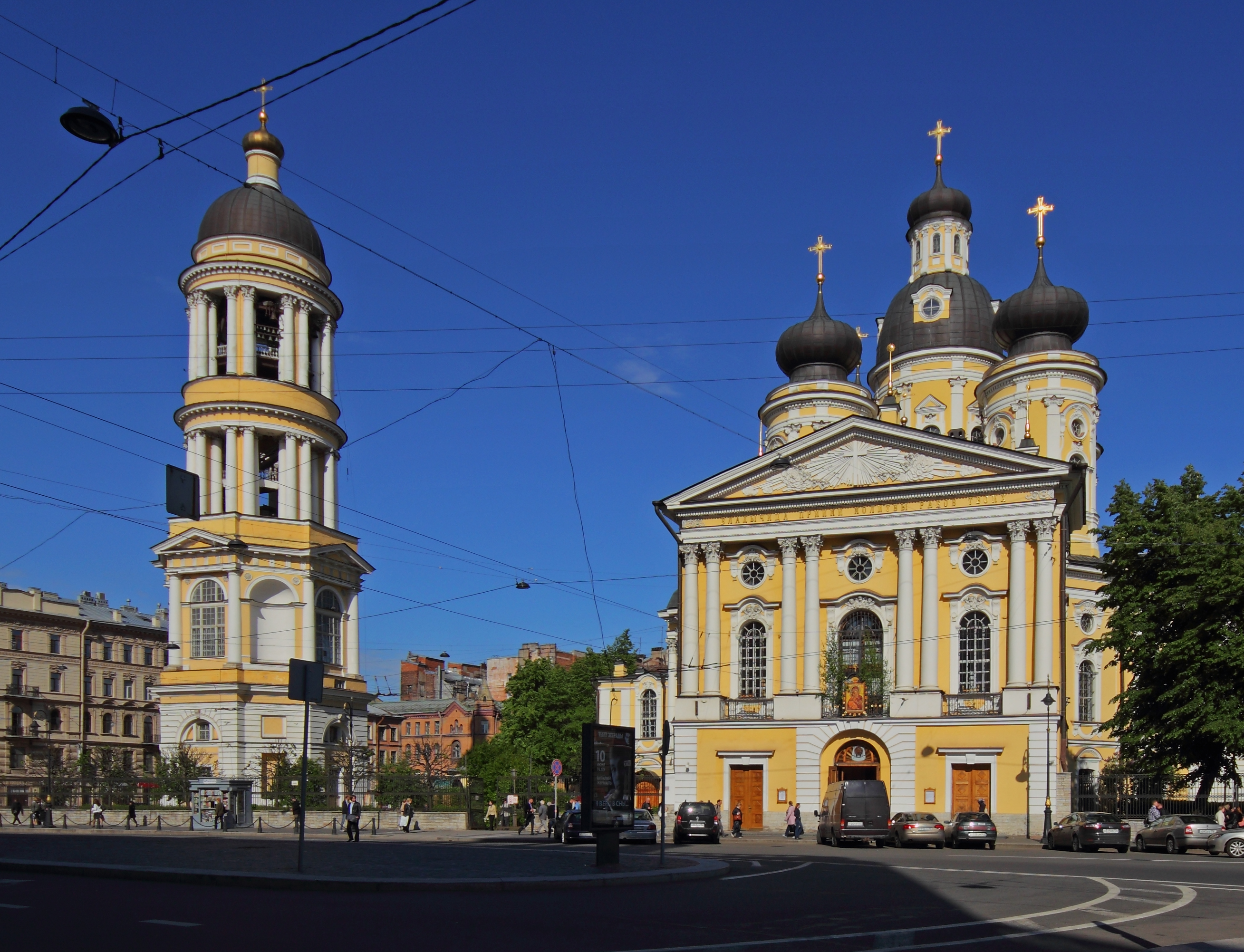 Saint Petersburg, Russia. St. Vladimir Cathedral.